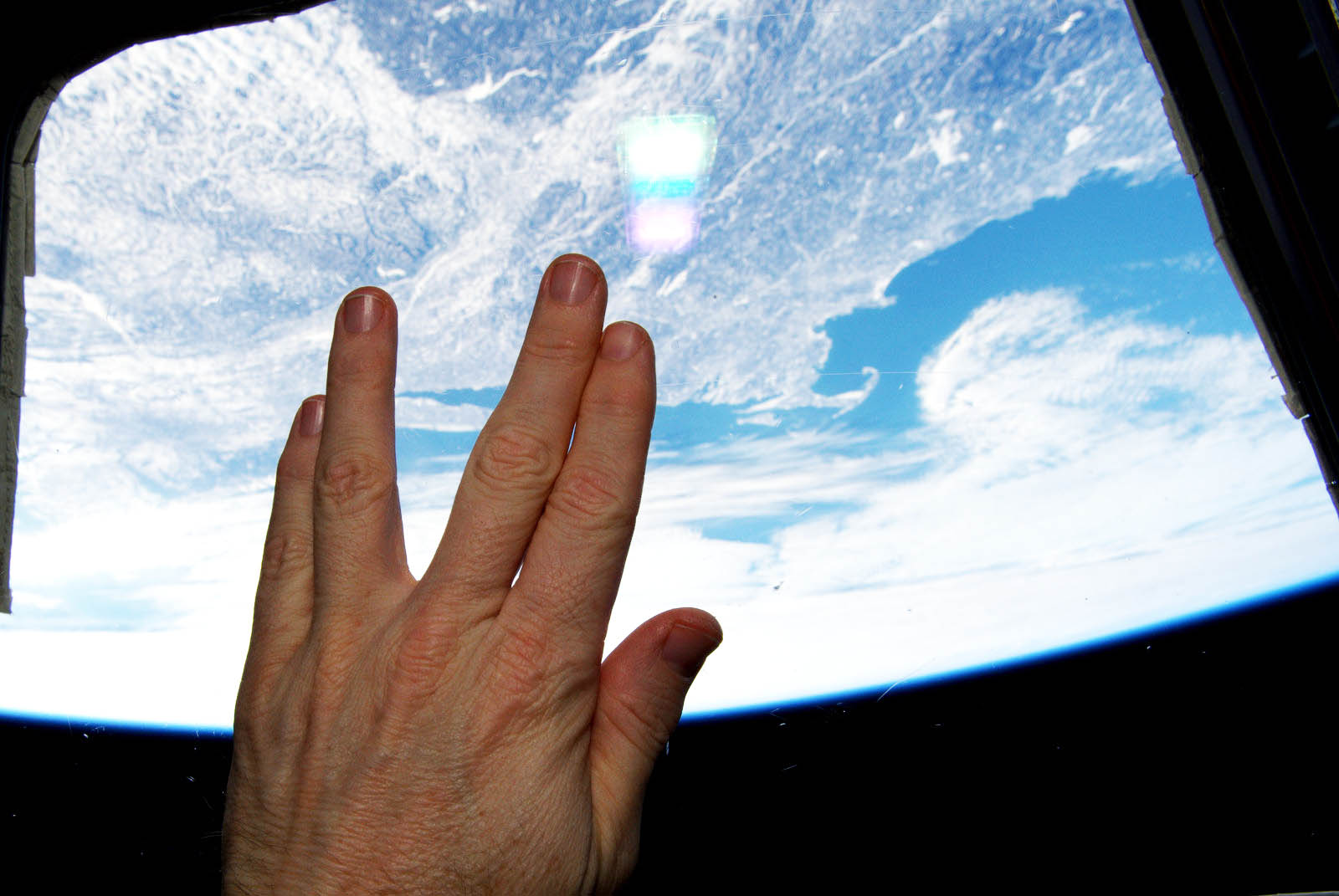 Astronaut Salutes Nimoy From Orbit International Space Station astronaut Terry Virts (@AstroTerry) tweeted this image of a Vulcan hand salute from orbit as a tribute to actor Leonard Nimoy, who died on Friday, Feb. 27, 2015. Nimoy played science officer Mr. Spock in the Star Trek series that served as an inspiration to generations of scientists, engineers and sci-fi fans around the world. Cape Cod and Boston, Massachusetts, Nimoy's home town, are visible through the station window.